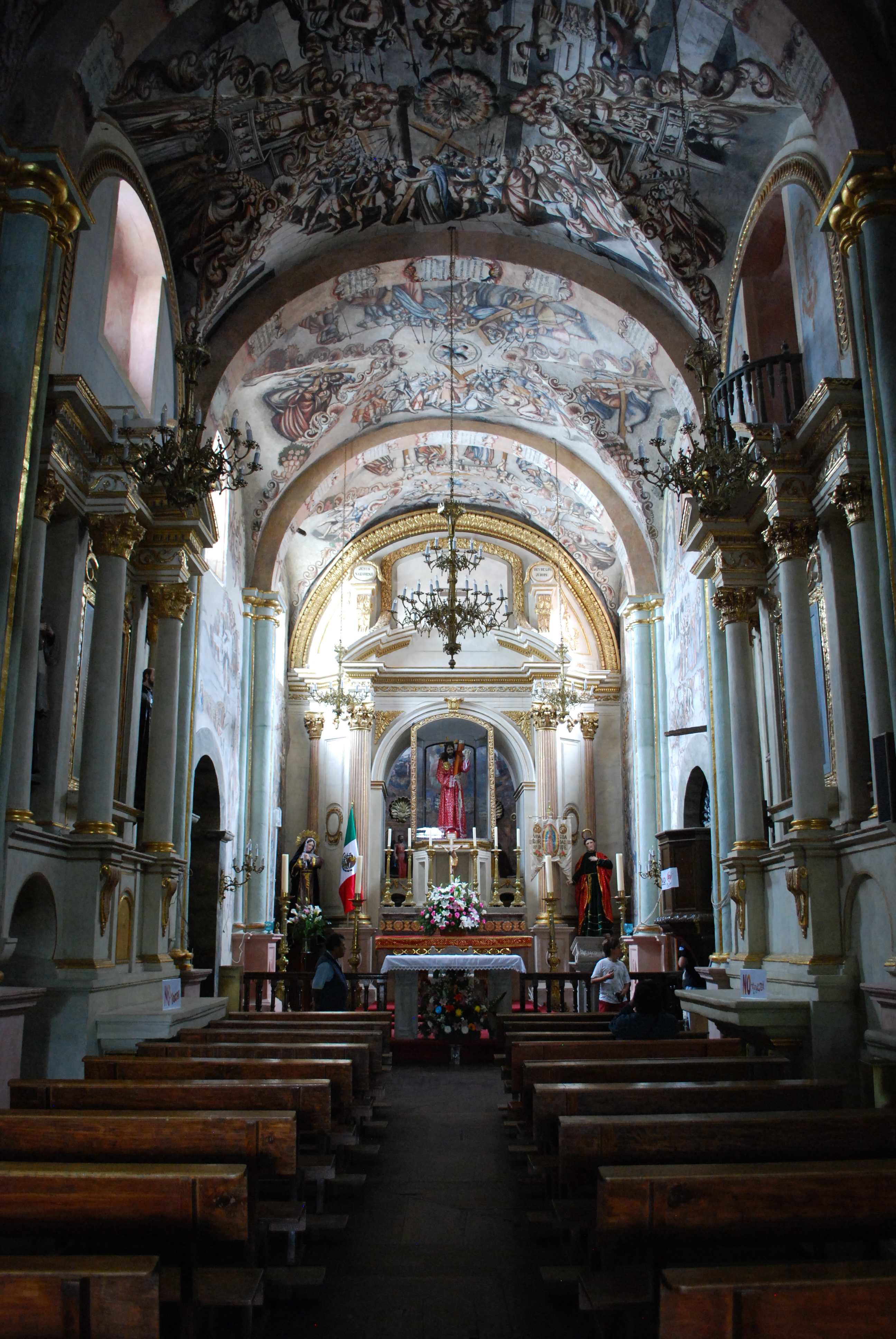 View of the nave of the Sanctuary of Atotonilco, San Miguel Allende, Guanajuato, Mexico